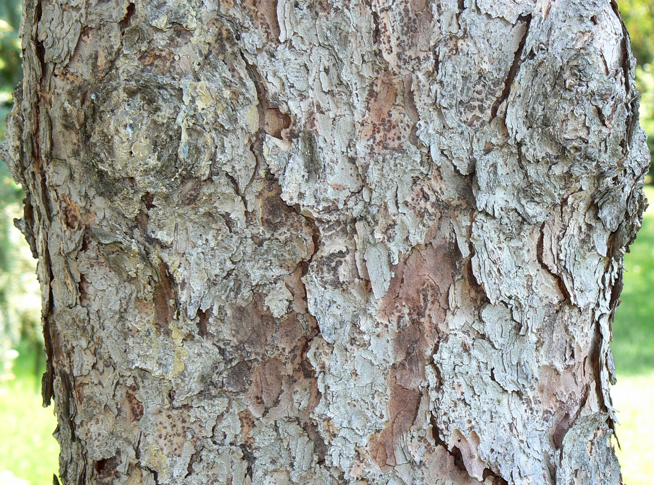 White Spruce Picea glauca bark detail